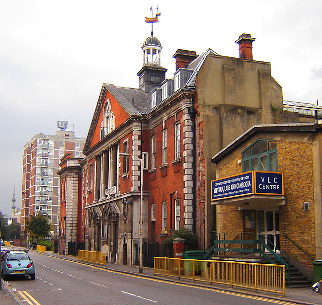 Haggerston Pool (currently disused) with SE Asian refugee centre (foreground), Haggerston, Hackney, London. 9 October 2005. Photographer: Fin Fahey